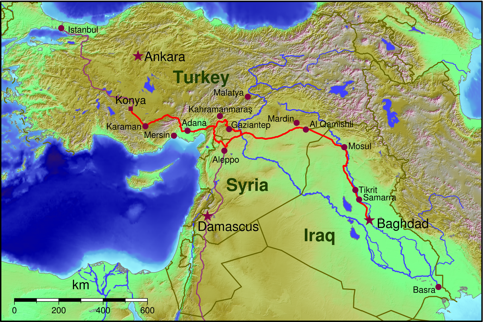 Map of the Baghdad Railway with English labels